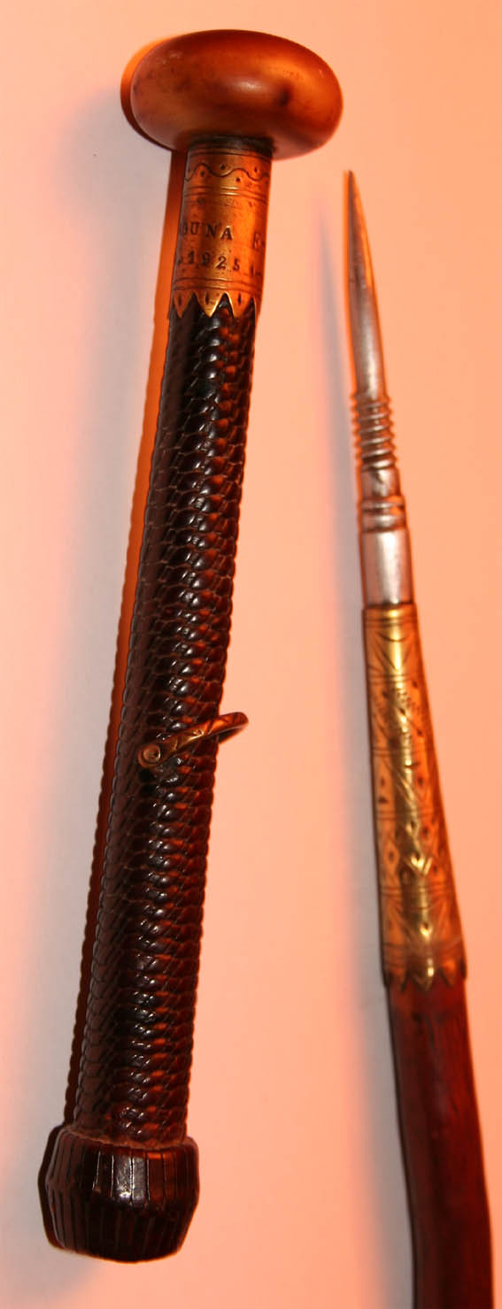 makila detail